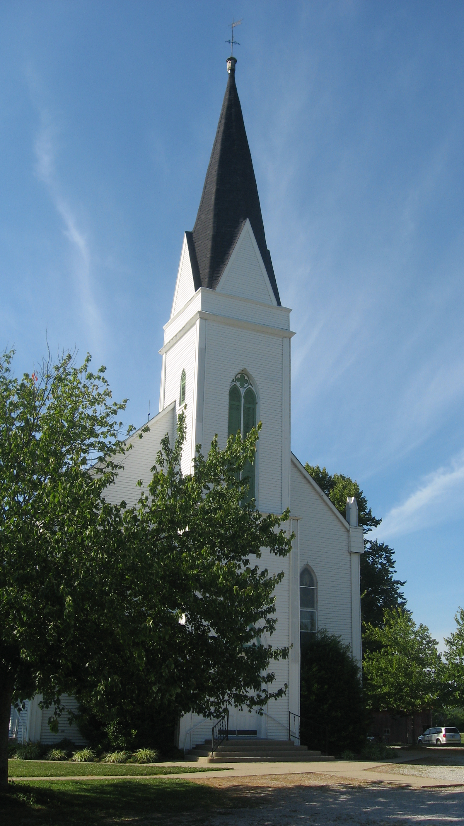 Front of St. John's Lutheran Church, located at 7291 State Road 62 southwest of Dillsboro in Caesar Creek Township, Dearborn County, Indiana, United States. Built in 1867, the church and several related buildings are listed together as a historic district on the National Register of Historic Places.